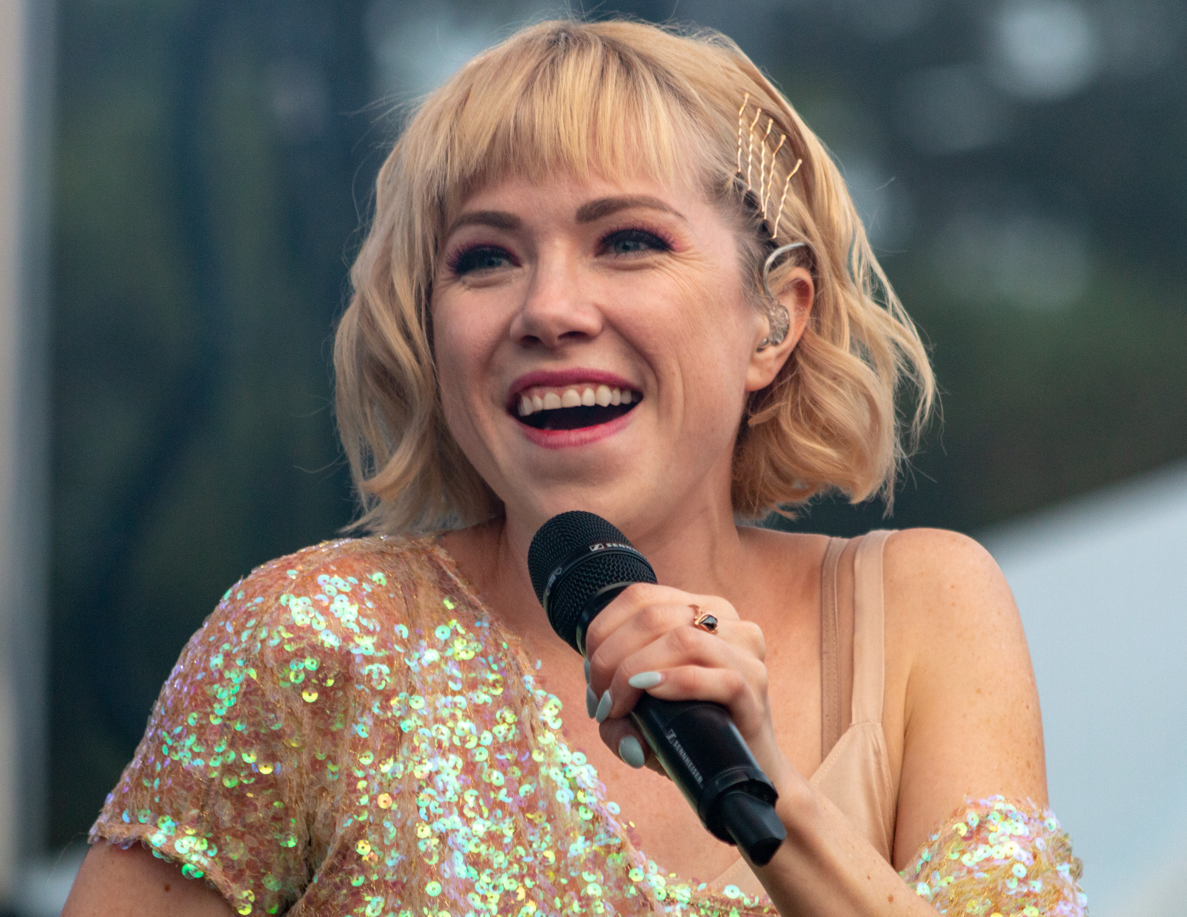 Carly Rae Jepsen performing at at Riverfest Elora 2018